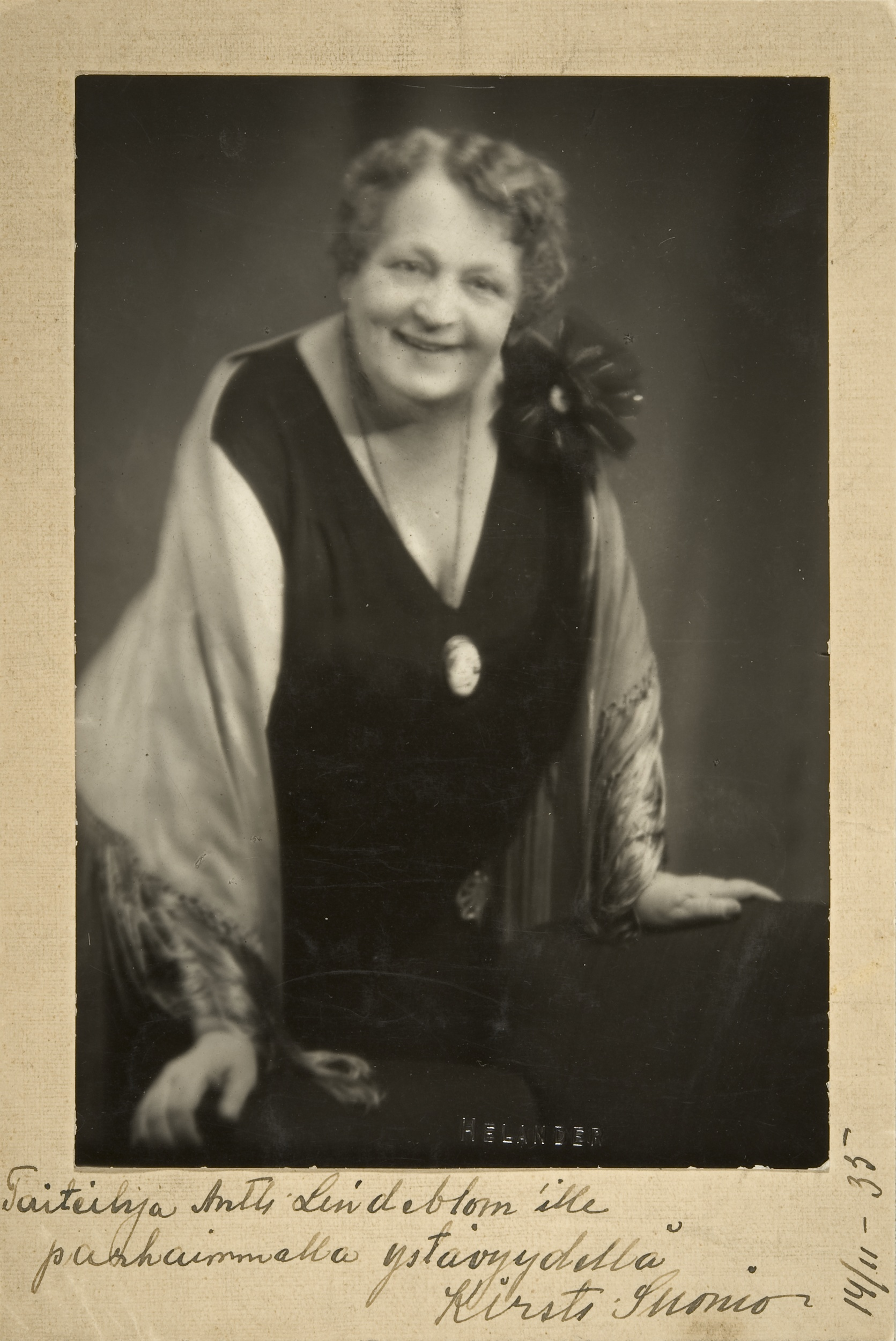 Photograph of the Finnish actress Kirsti Suonio (1872–1939).